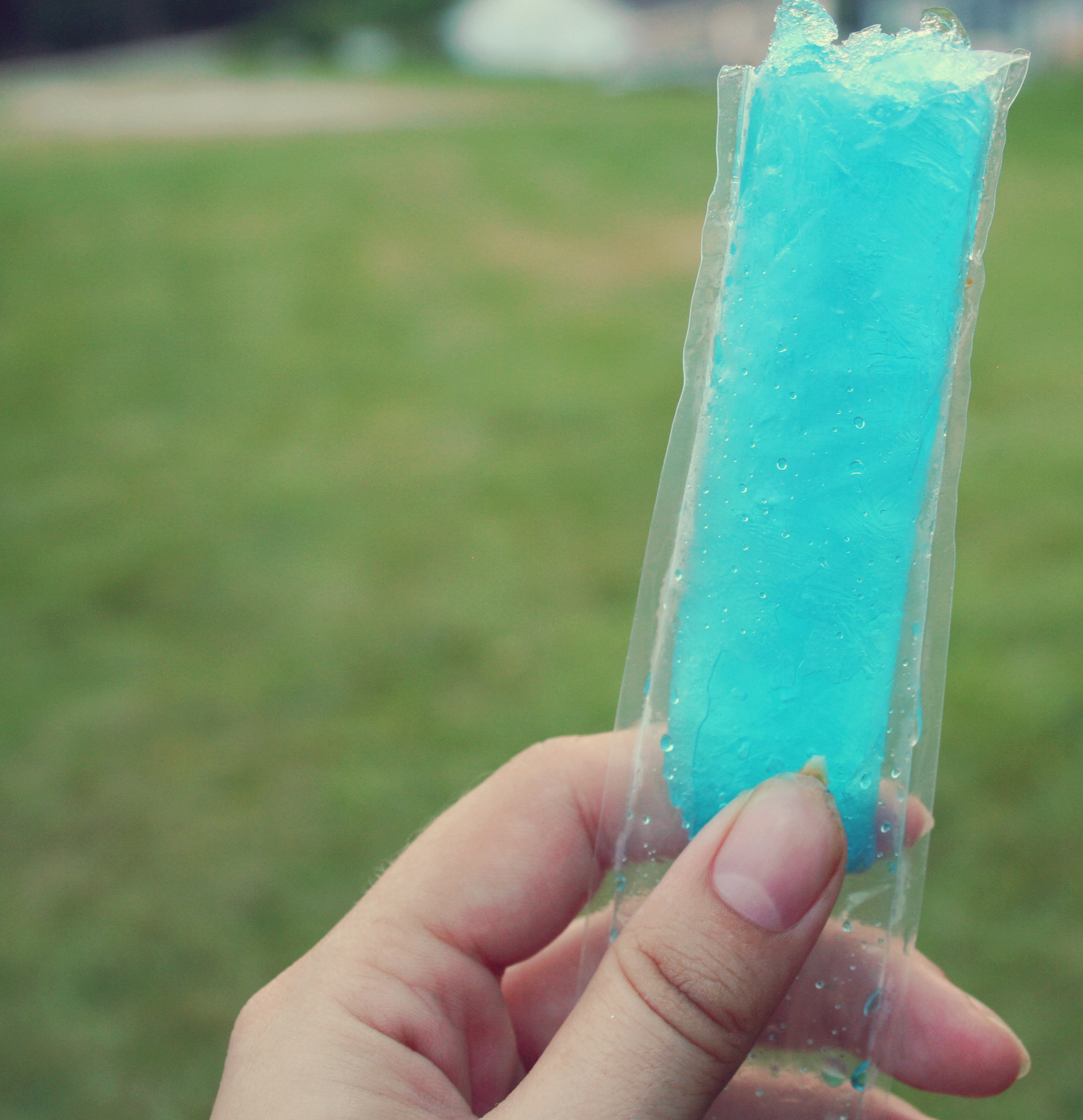 A blue raspberry-flavoured freezie or freezepop.